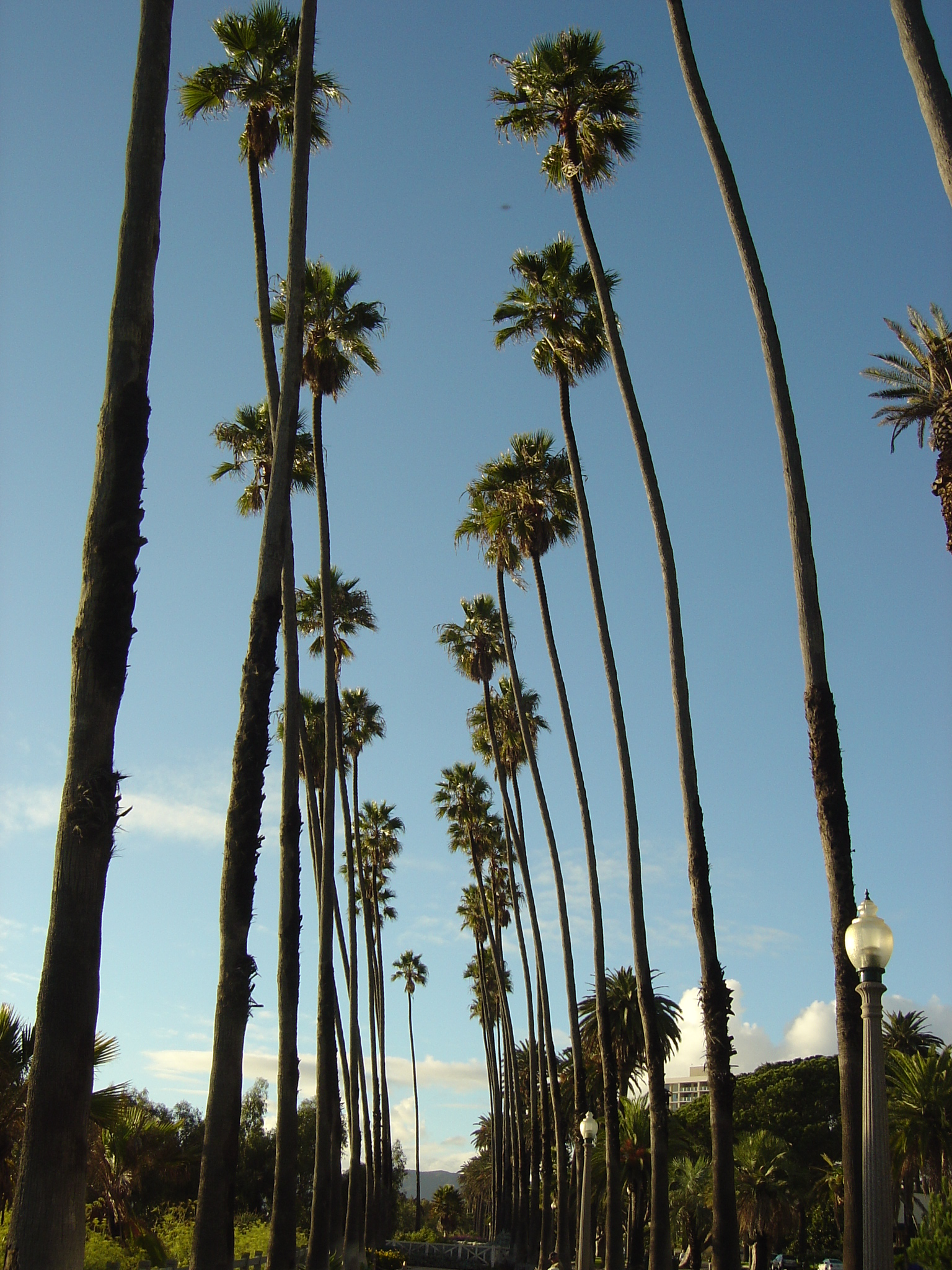 Palm avenue (allée) in Palisades Park — Santa Monica, California. Mexican Fan Palm trees (Washingtonia robusta).